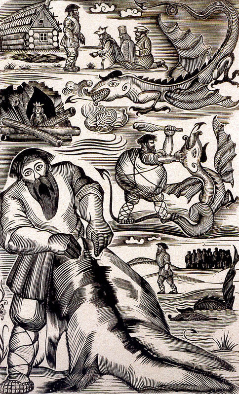 Nikolay Dmitrevsky. Nikita the Furrier. Wood engraving, 1934